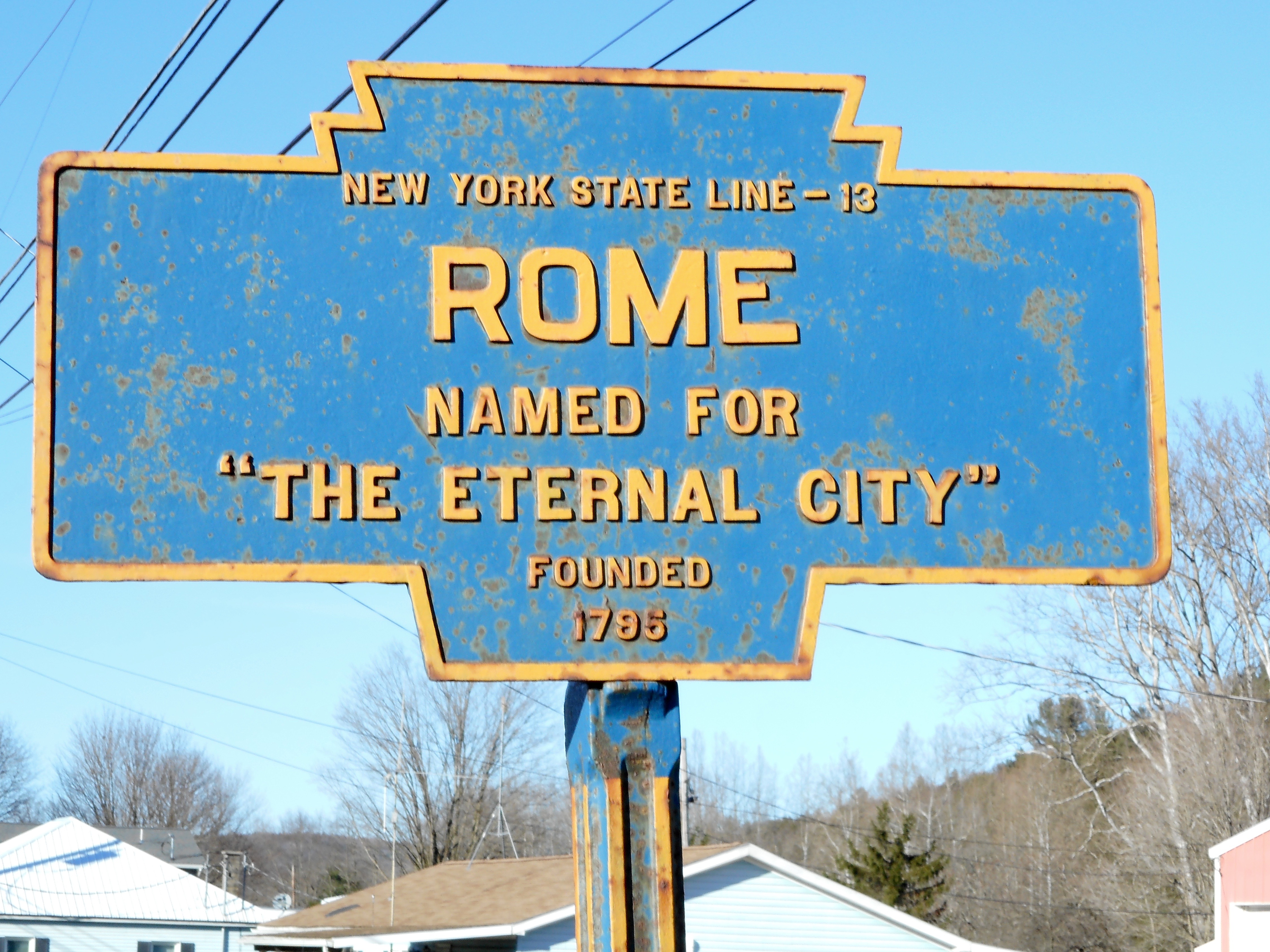 Keystone sign in Rome, Pennsylvania